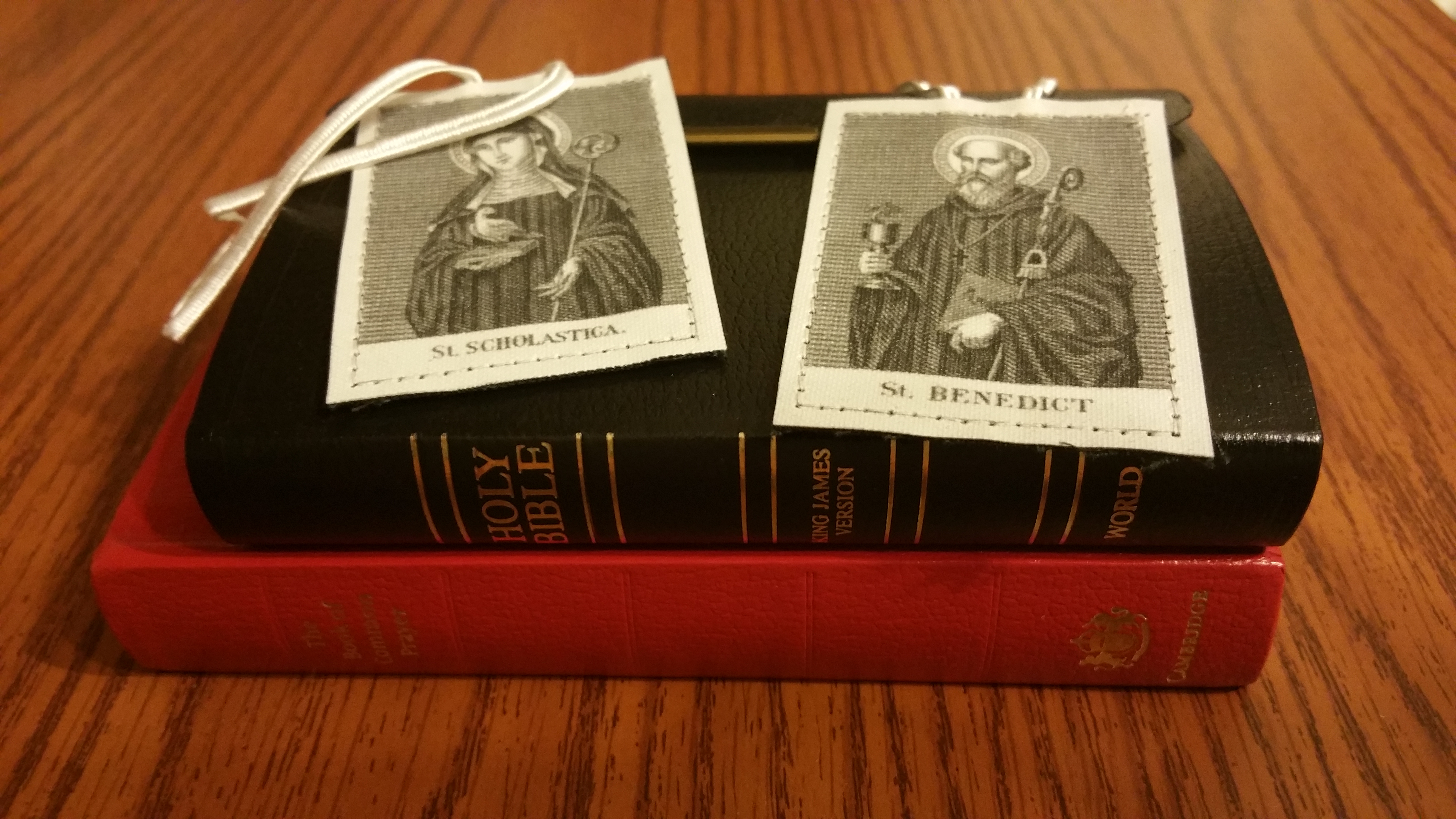 The image is of the Scapular of Saint Benedict. I clicked this picture on August 09, 2015.